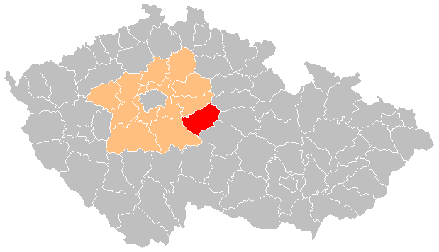 Kutná Hora District within Central Bohemian Region. Current borders of districts since January 1, 2007.